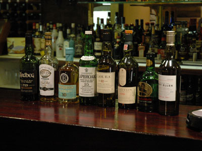 A collection of whiskies from the eight distilleries on the island of Islay in the Inner Hebrides, Scotland, UK. One of these distilleries has ceased production. The flavours range from peaty to sea salt. From left to right, the bottles are from Ardbeg, Bowmore, Bruichladdich, Laphroaig, Caol Ila, Lagavulin, Bunnahabhain, and Port Ellen (Port Ellen has closed).